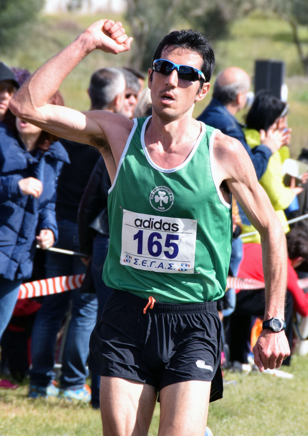 Greek long-distance runner Dimosthenis Magginas, competing for Panathinaikos.